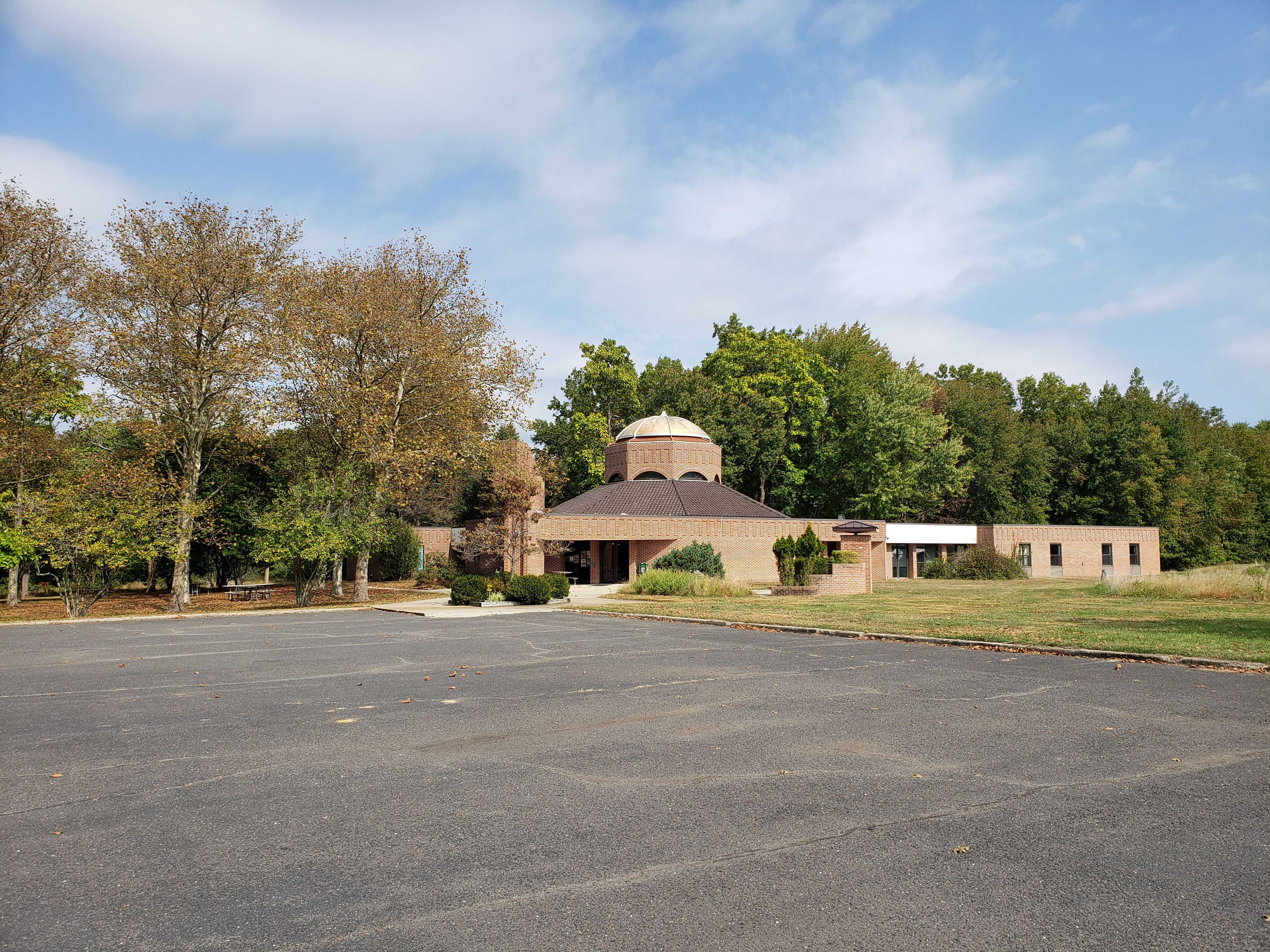 Formerly a monastery, this building now serves as the visitor's center at Freneau Woods Park, Aberdeen, New Jersey. Taken in October 2019.